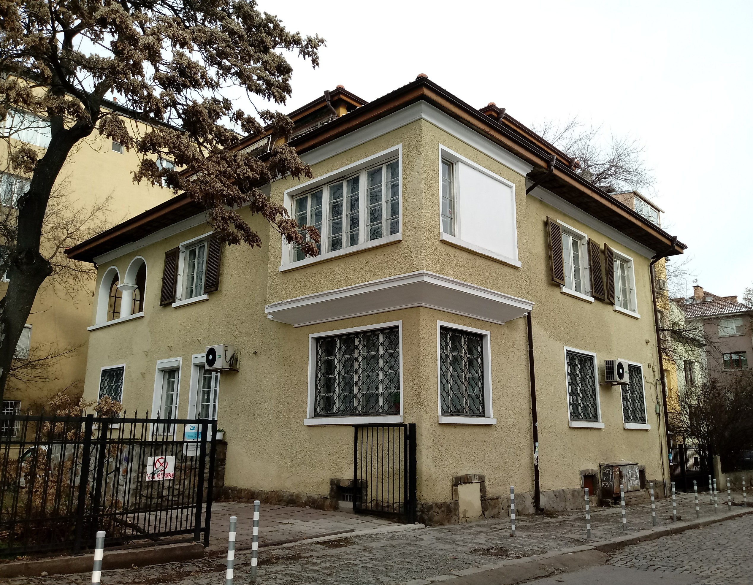 Stoycho Moshanov home with memorial plaque, 23 Tsarigradsko Chausee Blvd., Sofia